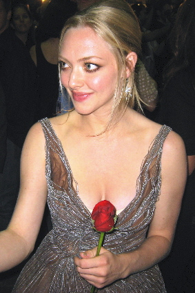 Amanda Seyfried at the premiere of Jennifer's Body, Toronto Film Festival 2009.